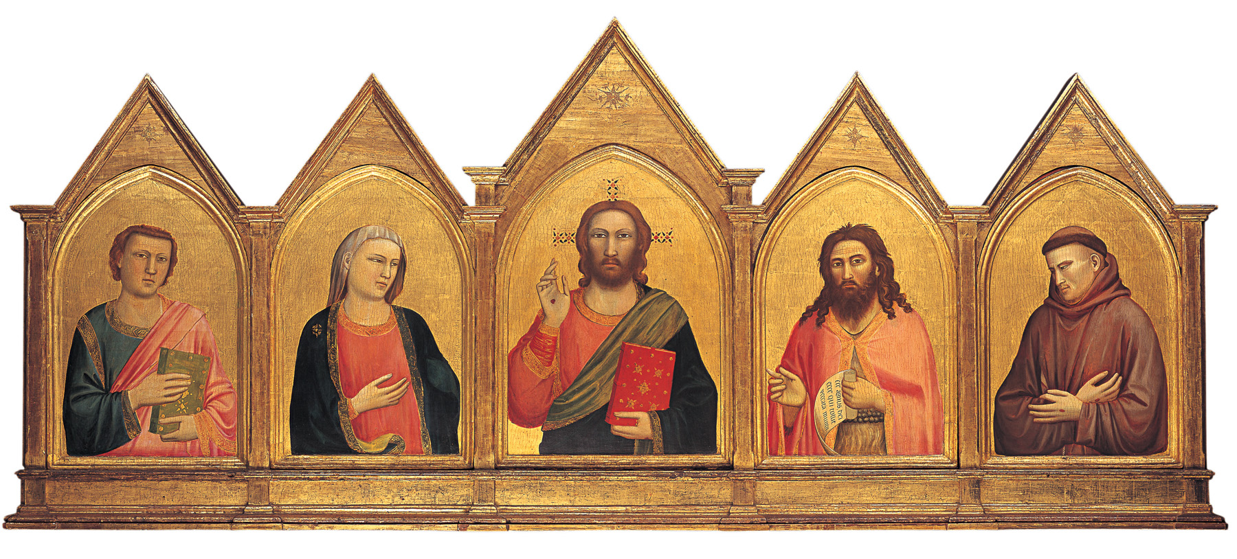 Giotto._Peruzzi_Altarpiece_1310-15.North_Carolina_Museum_of_Art,_Raleigh